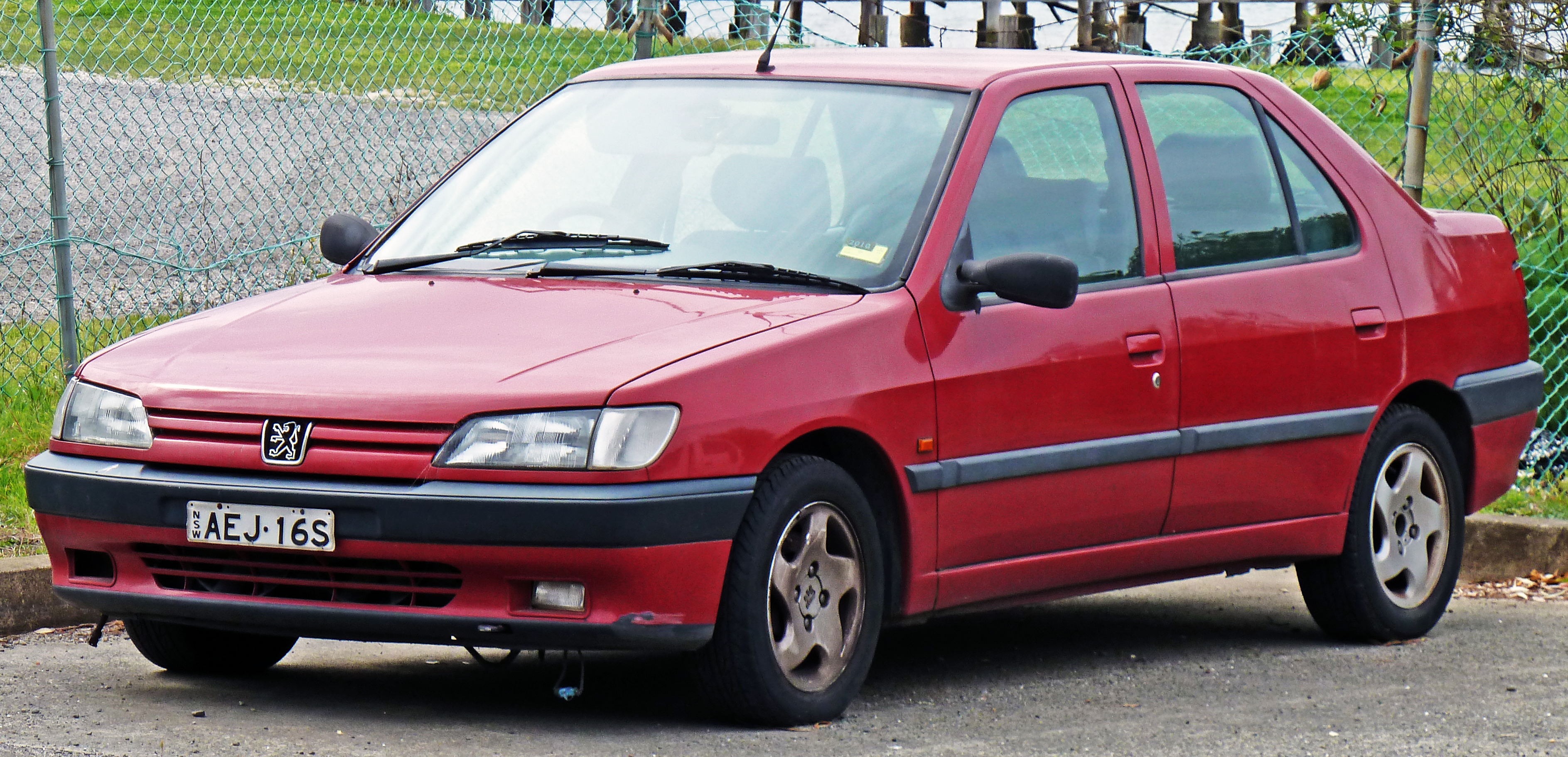 1995 Peugeot 306 (N3) ST sedan. Photographed in Taren Point, New South Wales, Australia.